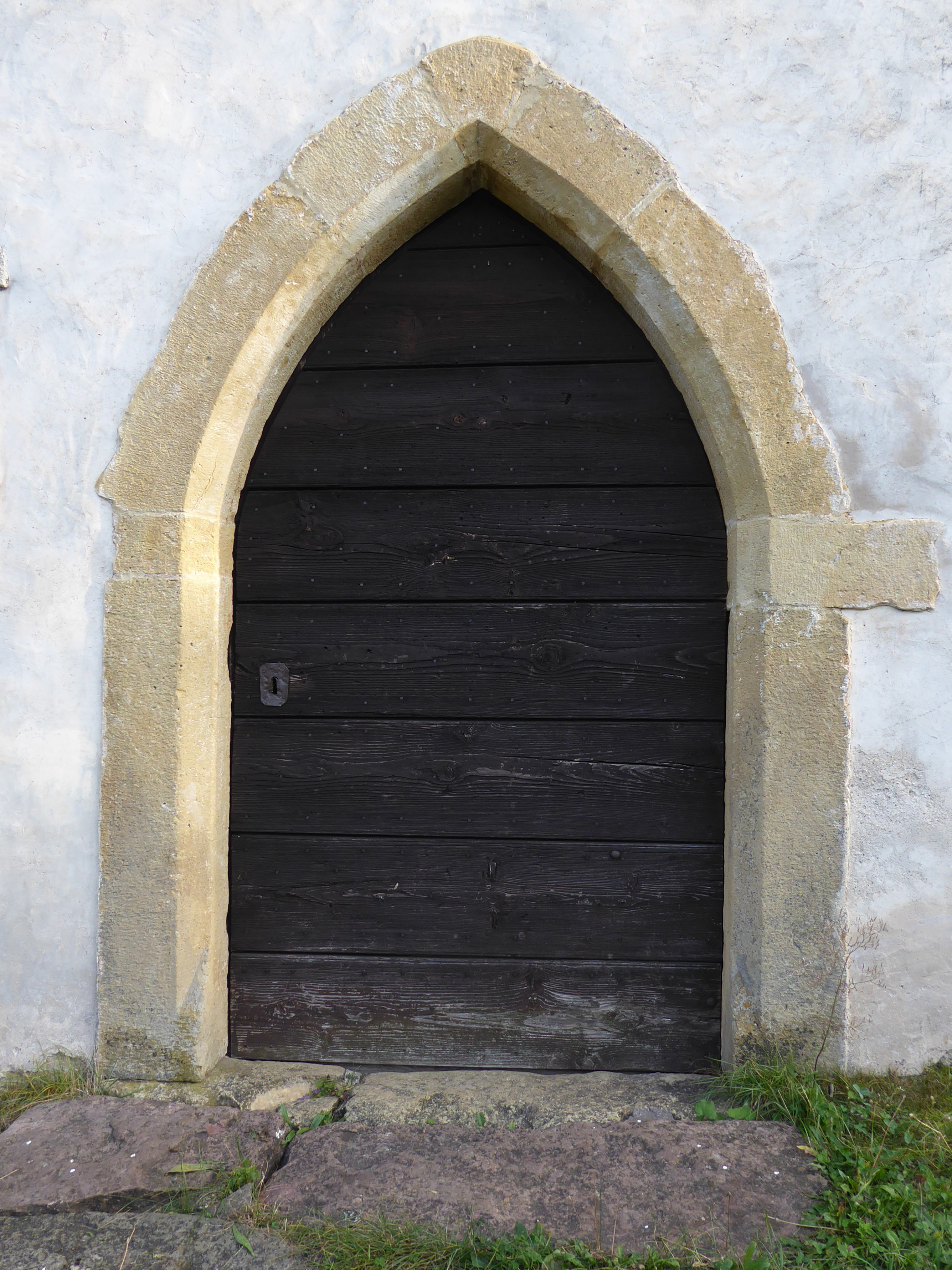 Saint Florian chuch's door in Valternigo (Giovo, Trentino, Italy)